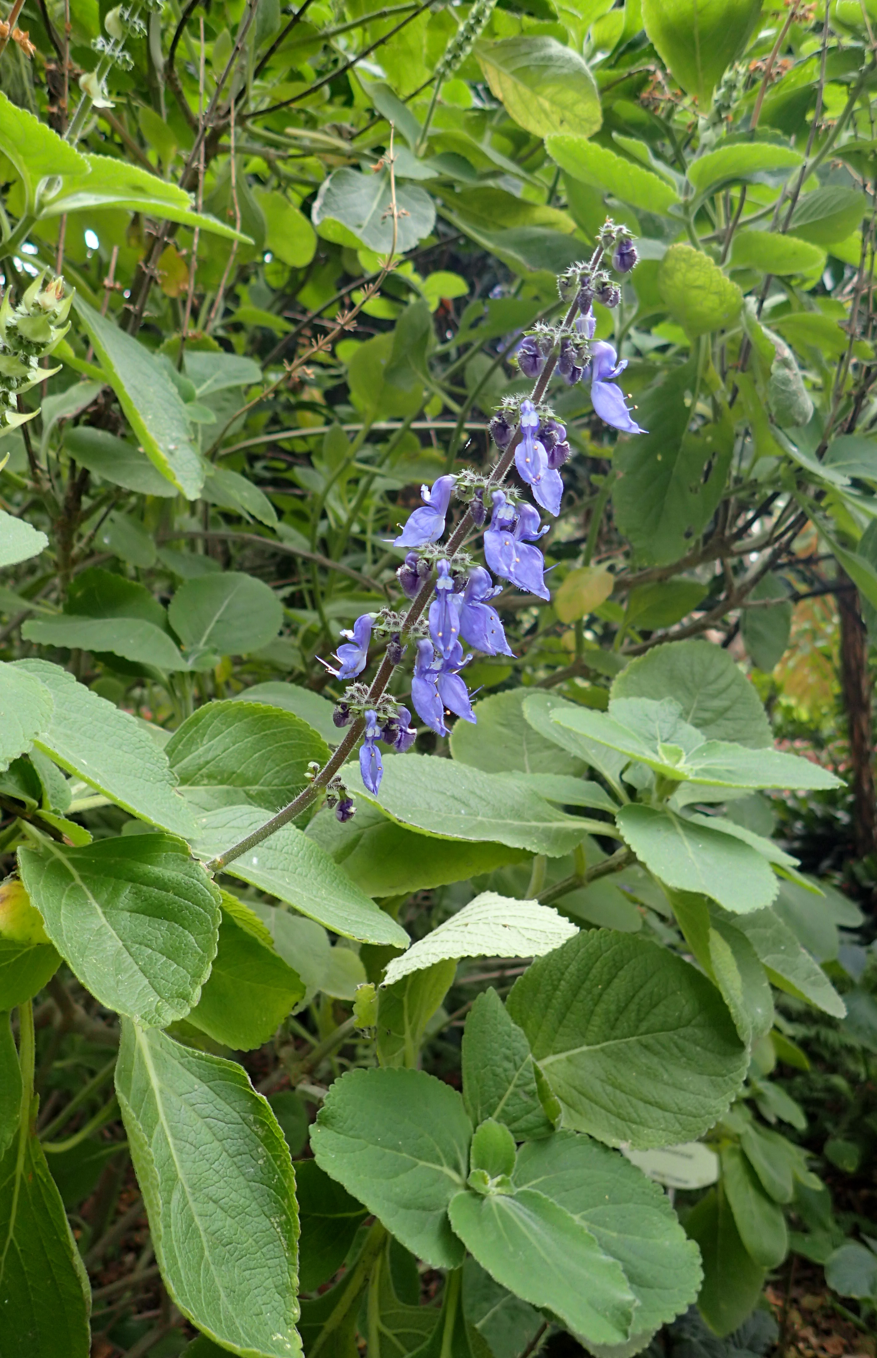 Plectranthus barbatus in Jardín de Aclimatación de la Orotava